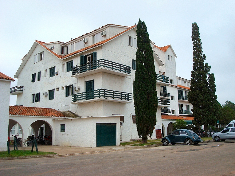 The Hotel Casino of Carmelo, Colonia Department, Uruguay.